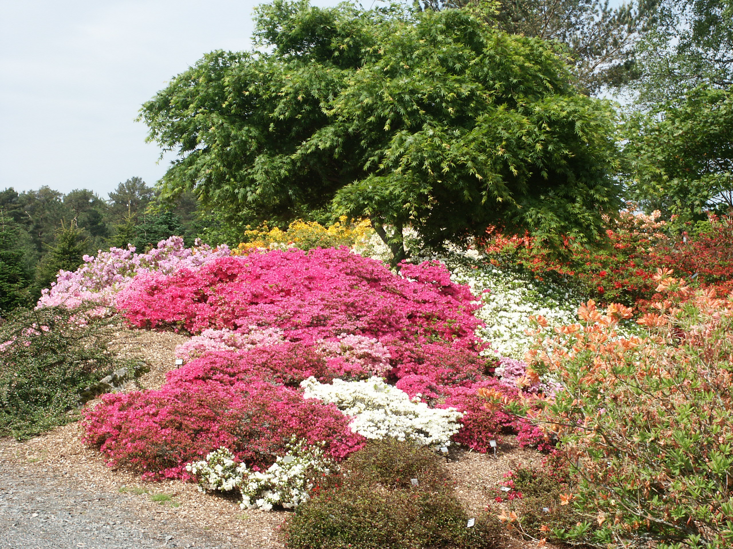 Arboretum, Milde, Bergen, Hordaland, Norway